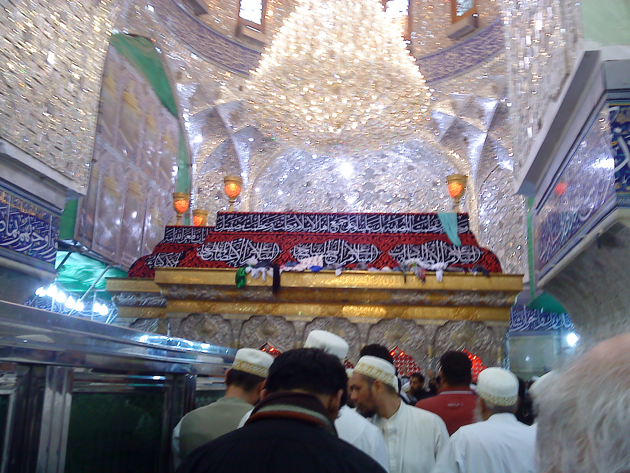 Zarih Imam husain, Karbala , a broad view